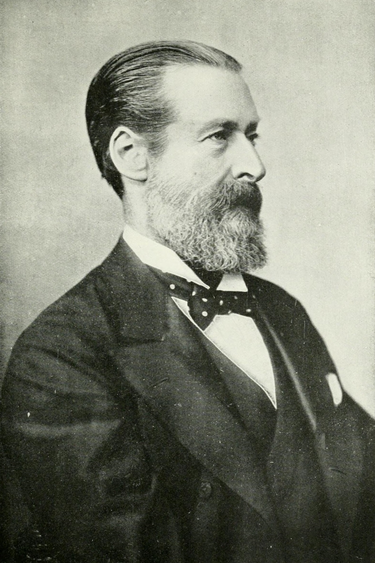 Portrait of Montagu Corry, 1st Baron Rowton